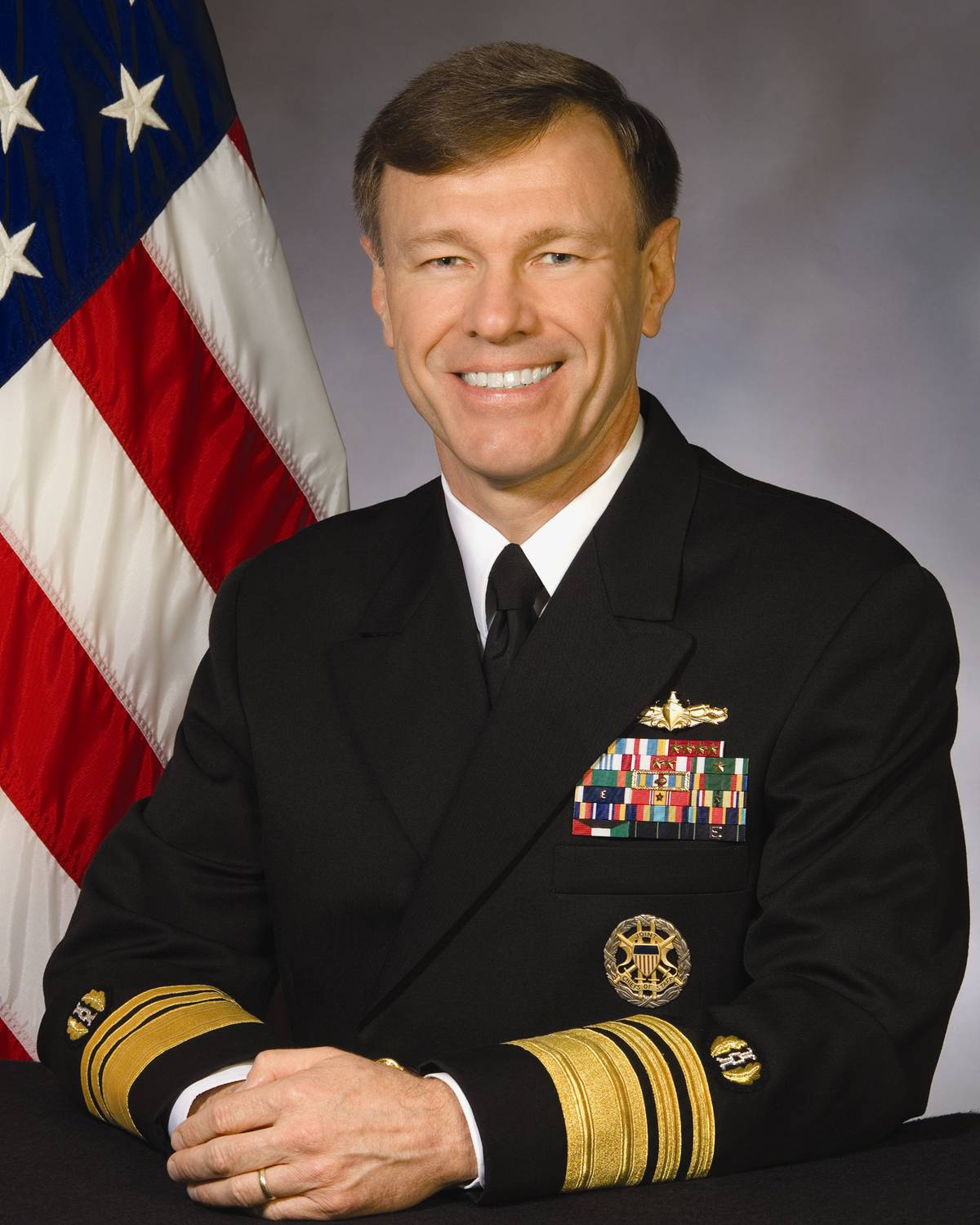 Vice Admiral James W. Houck, USN41st Judge Advocates General of the Navy